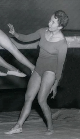 Gymnastics coach and manager Erna Wachtel in 1956 Press Photo US of Olympic gymnasts